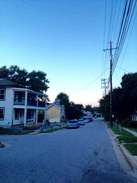 Looking north on Main Street in Historic Elkridge, MD.